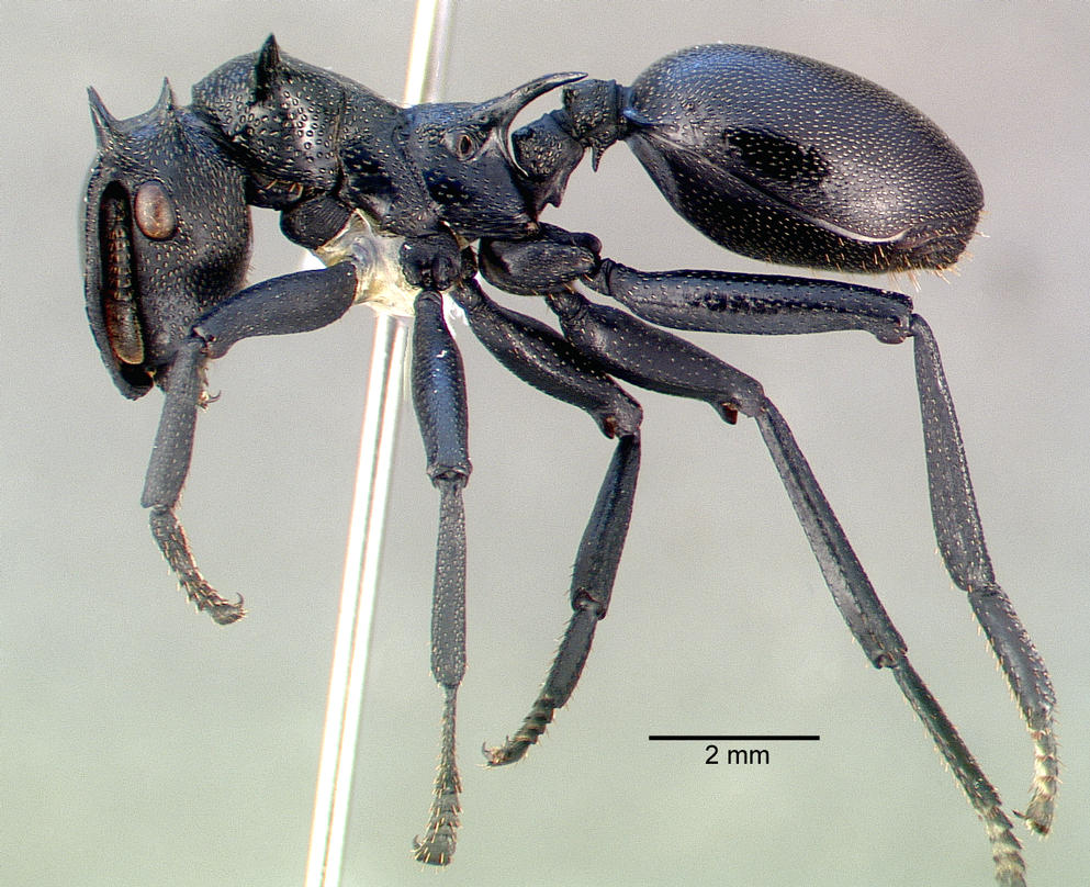 Profile view of ant Cephalotes atratus specimen casent0010675.